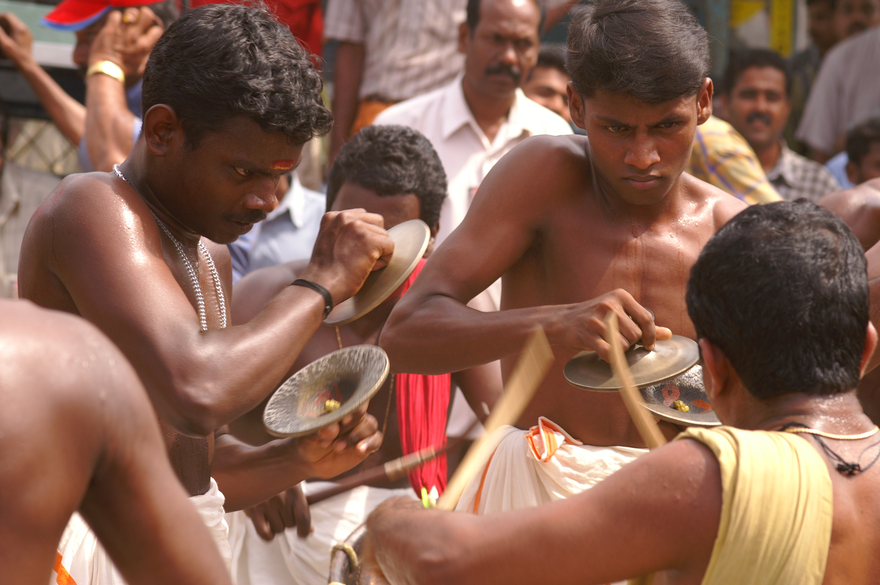 An Indian percussion group, hired by and party of a Communist Party rally.